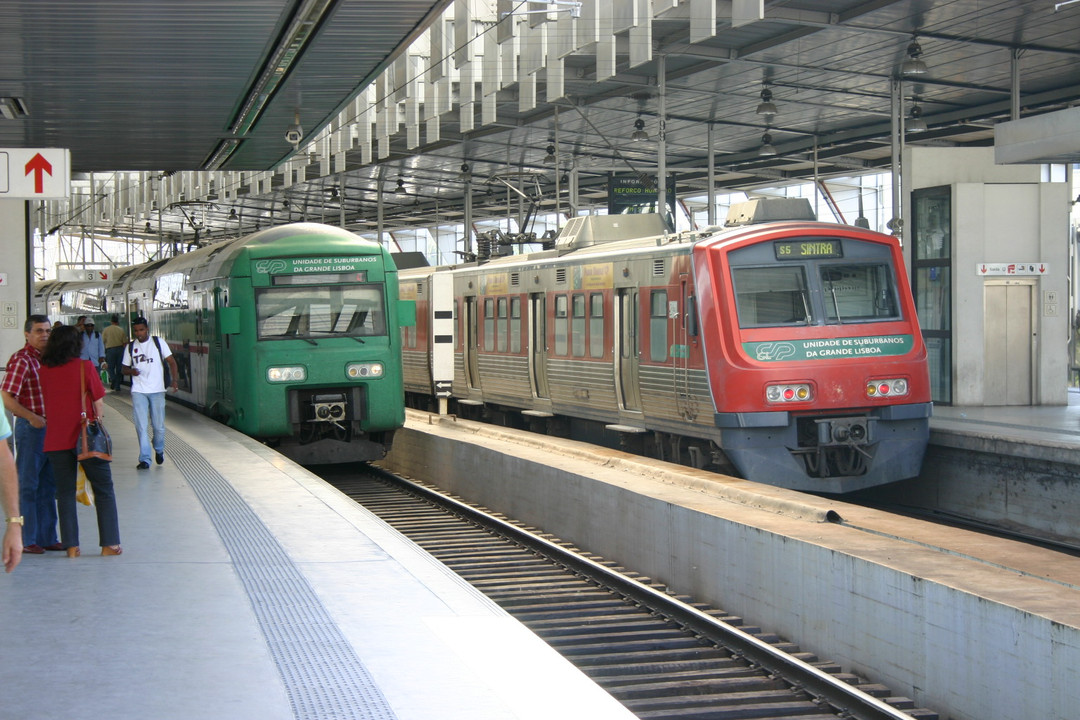 Two suburban trains at Entrecampos train station in Lisbon, Portugal